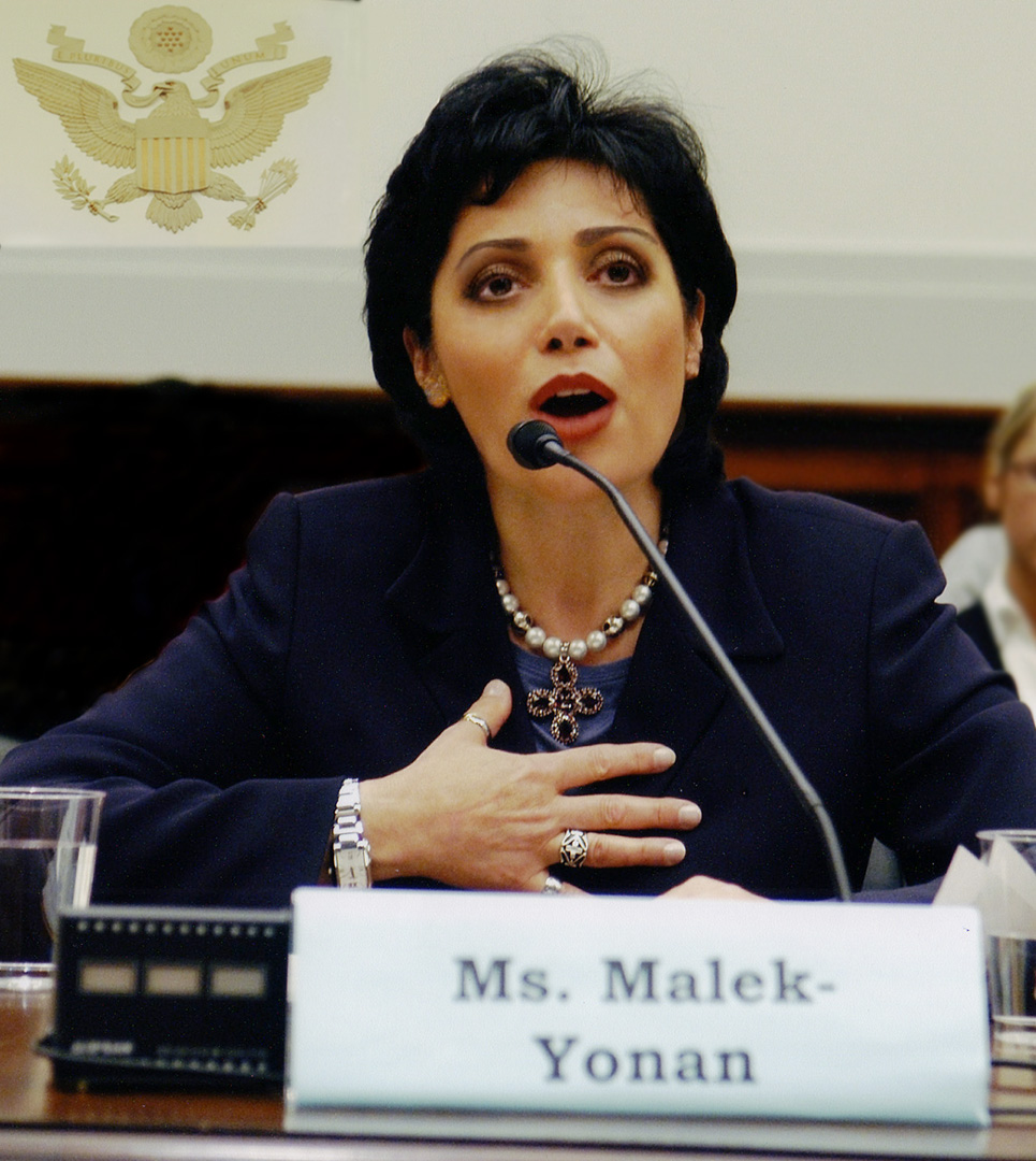 I, Rosie Malek-Yonan, the copyright holder of this work, hereby publish it under the following licenses: Permission is granted to copy, distribute and/or modify this document under the terms of the GNU Free Documentation License, Version 1.2 or any later version published by the Free Software Foundation; with no Invariant Sections, no Front-Cover Texts, and no Back-Cover Texts. A copy of the license is included in the section entitled en:"GNU Free Documentation License".